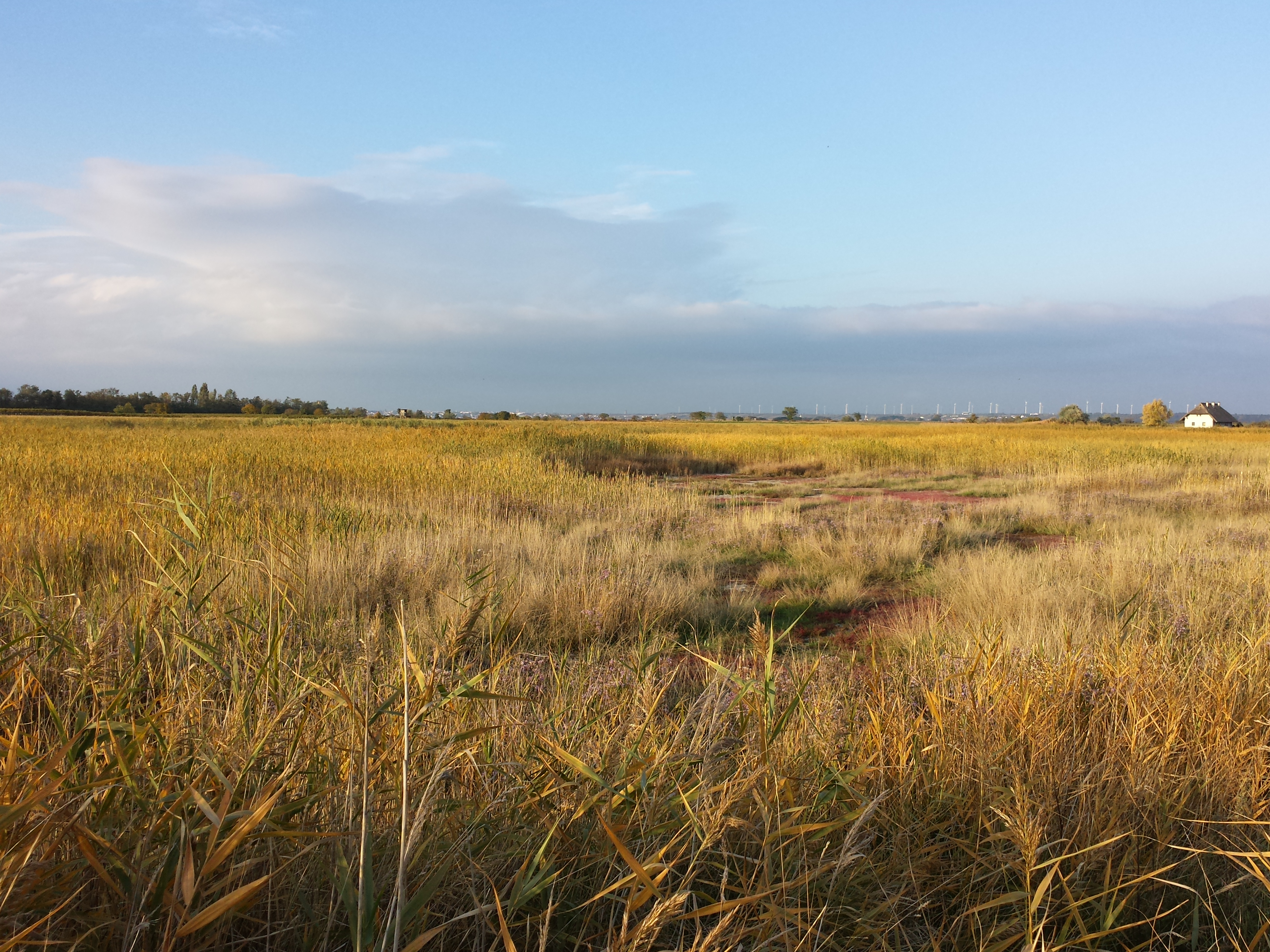 small dried-out salt lake near Podersdorf, district Neusiedl am See, Burgenland, Austria - ca. 120 m a.s.l.